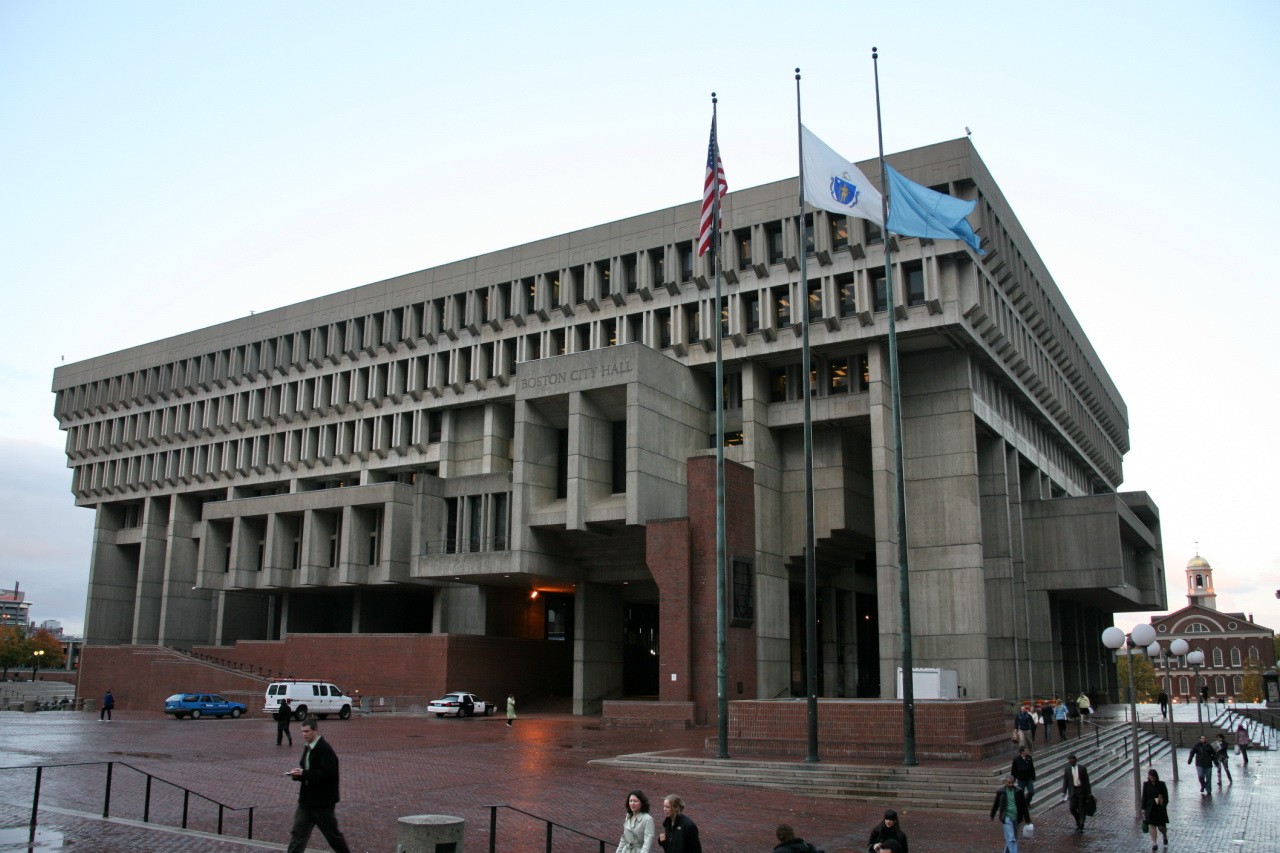 City Hall Plaza, Boston, Massachusetts